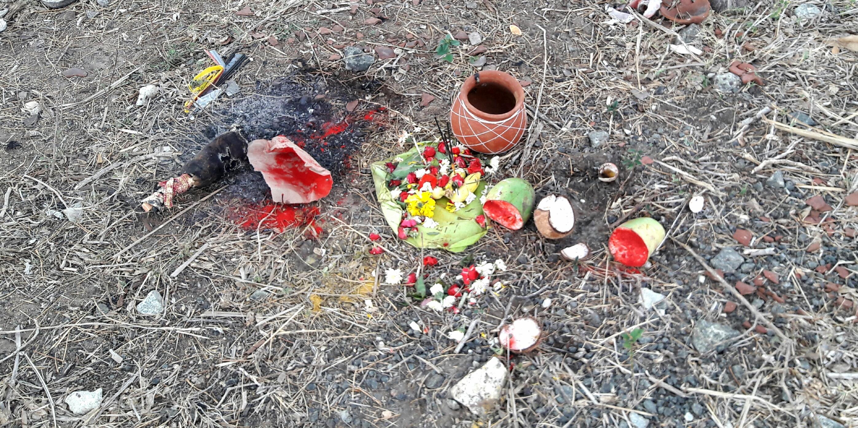 It is part of Tamilnadu village festival.